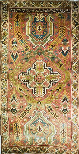 Gohar carpet, two line Armenian inscription of 1700, Gohar was weaver of the rug, private collection, U.S.A. Photo: Armenian Rugs Society